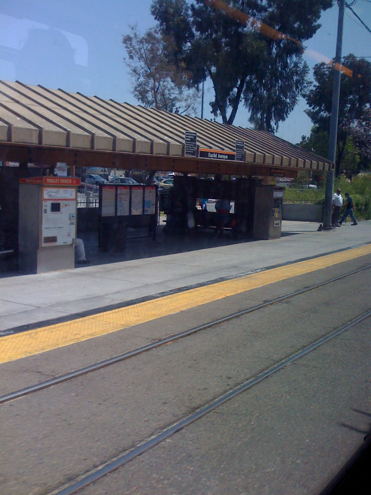 San Diego Trolley Station